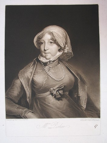 Portrait of Emma Parker (fl. 1811-20), Welsh romantic novelist